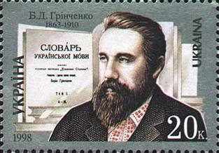 Stamp of Ukraine